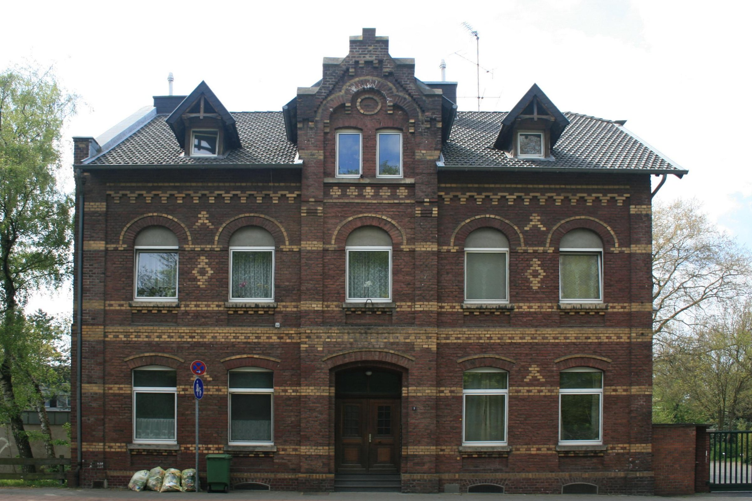 Cultural heritage monument No. 1/073 in Düren